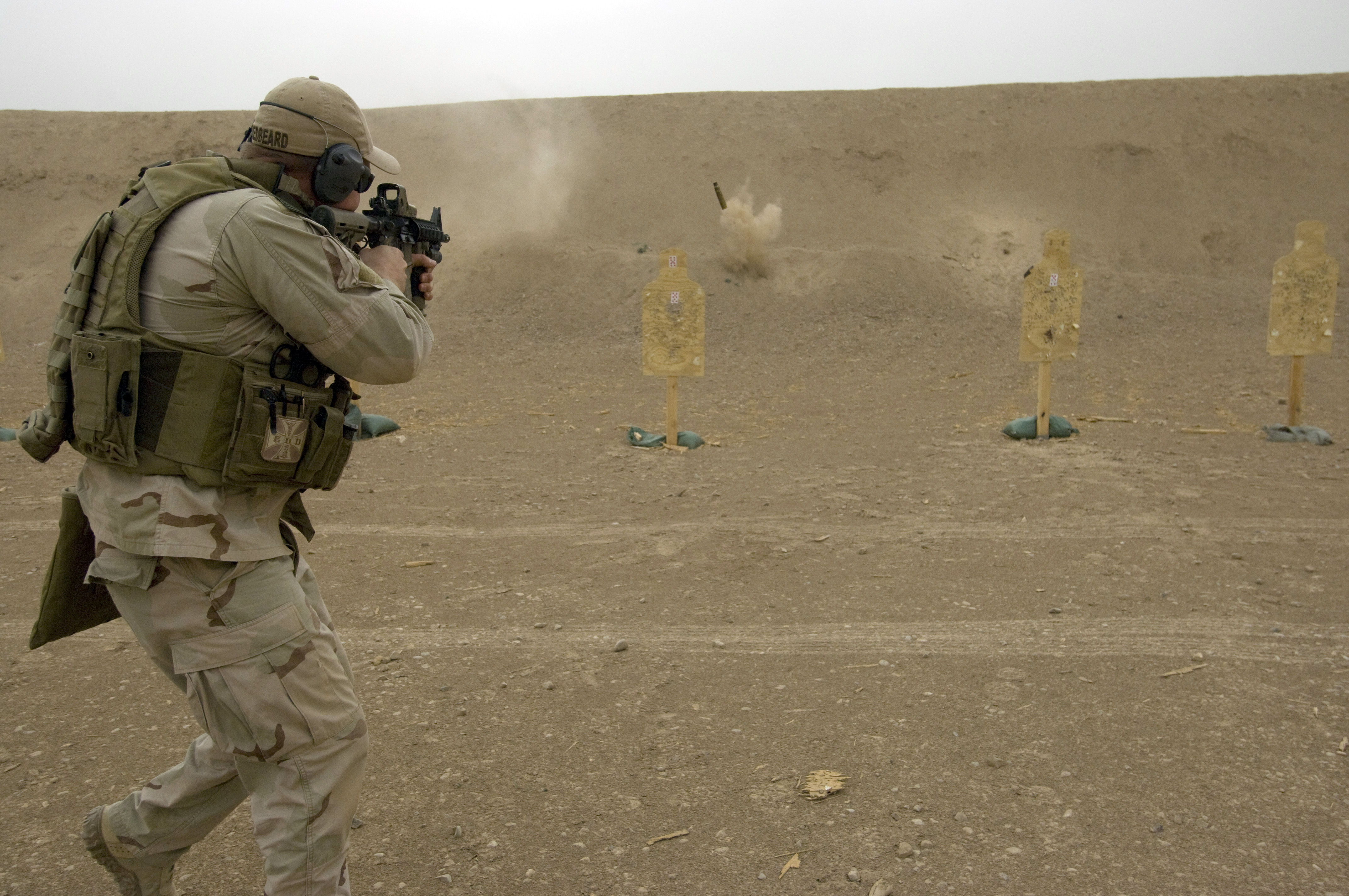 DIYALA, Iraq (Sept. 10, 2008) Petty Officer 1st Class Jason Null, assigned to Explosive Ordnance Disposal Mobile Unit (EOD MU) 12 practices reflexive firing during a periodic weapons assessment at Forward Operating Base Warhorse. The assessment allows EOD team members the opportunity to ensure optimal weapon performance while maintaining combat readiness. U.S. Navy photo by Mass Communication Specialist 1st Class Mario A. Quiroga (Released)